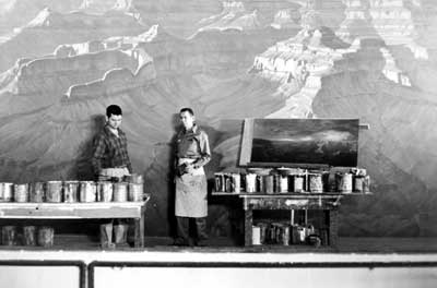 Owner and source is Barbara Yoakum, artist Delmer J. Yoakum's wife; GFDL image with her permission. --ArtAsLife 14:22, 28 August 2006 (UTC)